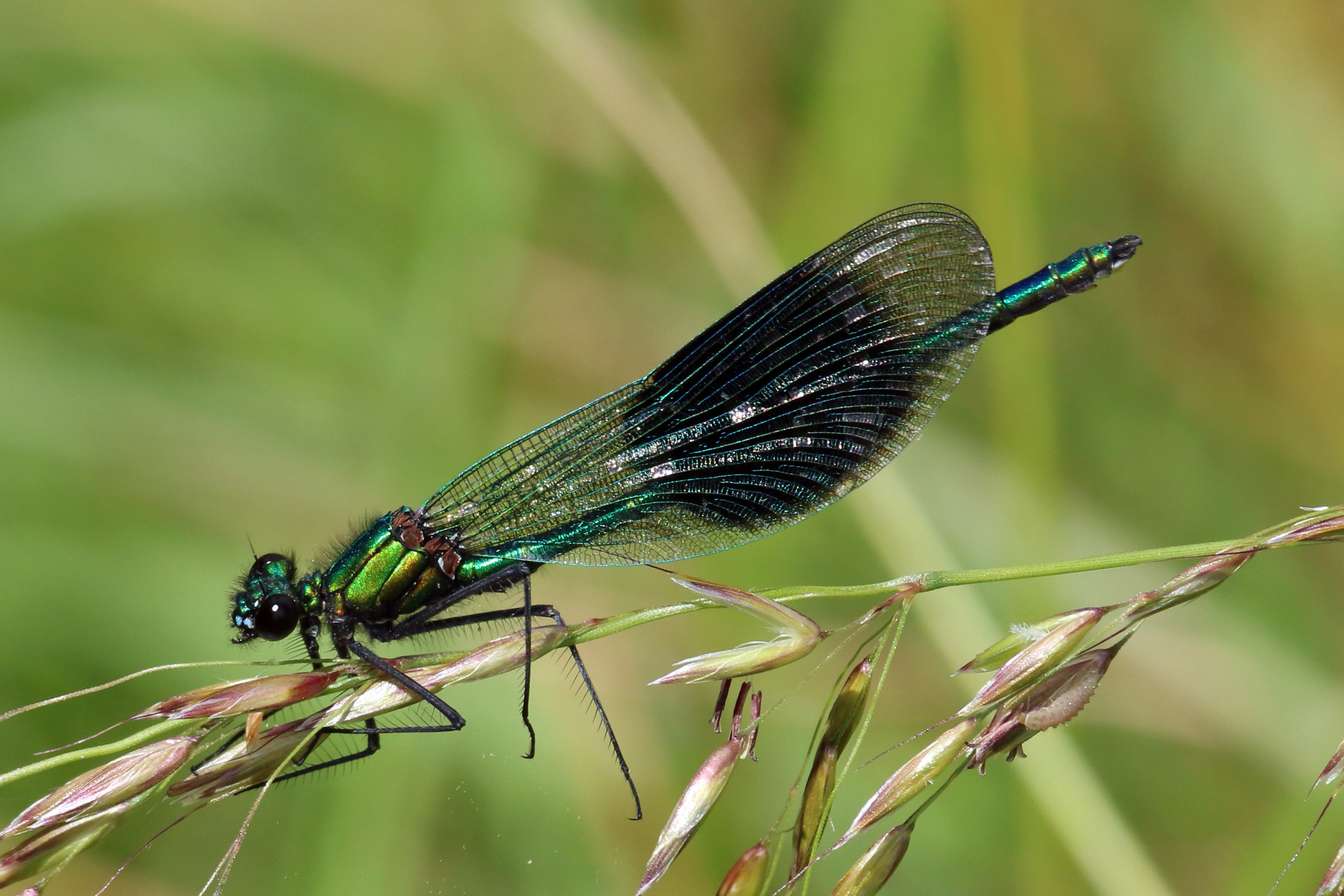 Banded demoiselle damselfly (Calopteryx splendens) male adult bluish green